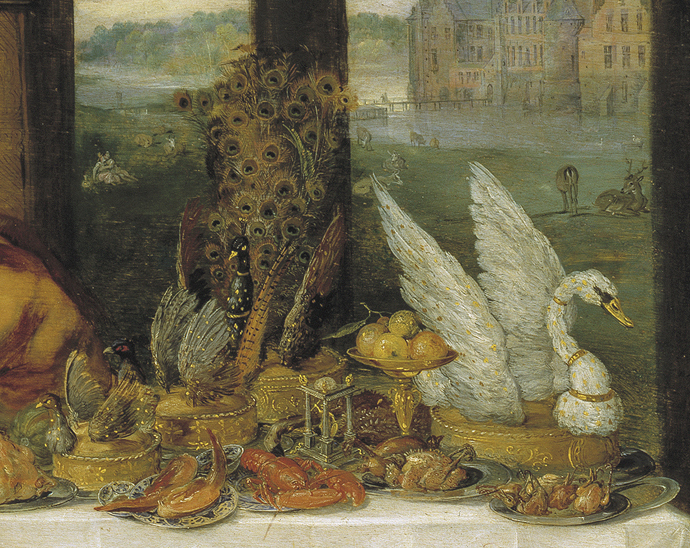 Detail of the painting (Redressed birds) Taste, Sense of Taste or Allegory of Taste